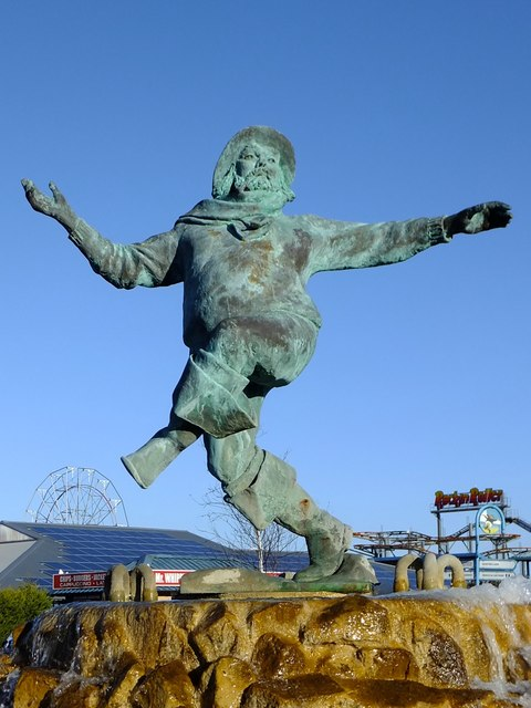 Jolly the fisherman - close-up